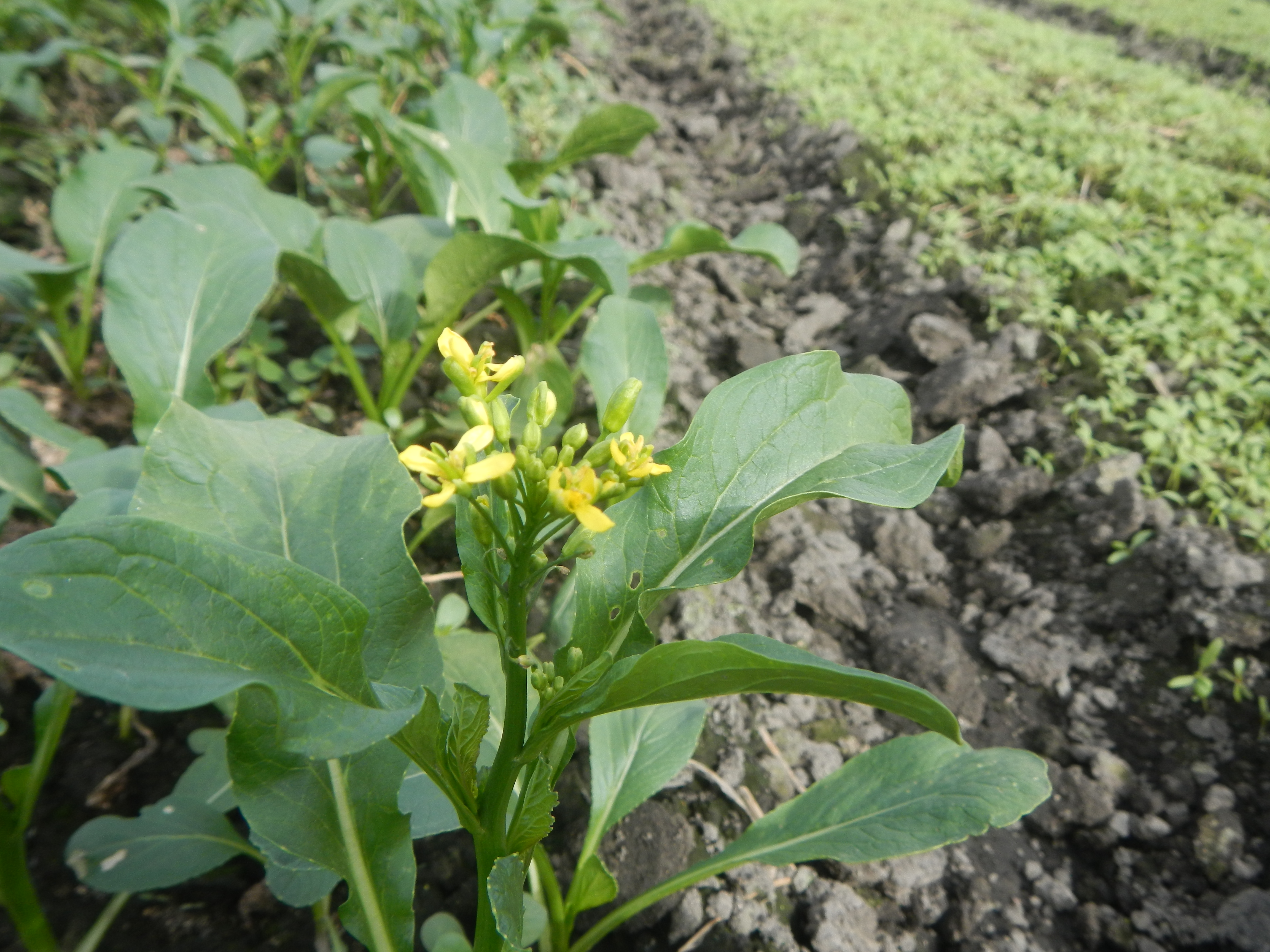 Vegetable plantations in Pulilan, Bulacan including the Ipomoea aquatica Ipomoea aquatica Kangkong Tsina LP Kangkong Ipomoea aquatica Forsk. Convolvulus reptans Linn. Bok choy Brassica rapa subsp. chinensis or Brassica rapa subsp. chinensis var. parachinensis Gai Lan Kai-lan Kailan Kena brocolli leaves broccoli cultivated for the leaves Chinese broccoli; Spinacia oleracea Spinach fields in Barangay Taal, Pulilan, Bulacan Vegetable plantations from the Pulilan-Baliuag interior National Road and towards along Pan-Philippine Highway, also known as the Maharlika "Nobility/freeman" Highway in Cagayan Valley Road (Note: Judge Florentino Floro, the owner, to repeat, Donor Florentino Floro of all these photos hereby donate gratuitously, freely and unconditionally all these photos to and for Wikimedia Commons, exclusively, for public use of the public domain, and again without any condition whatsoever).